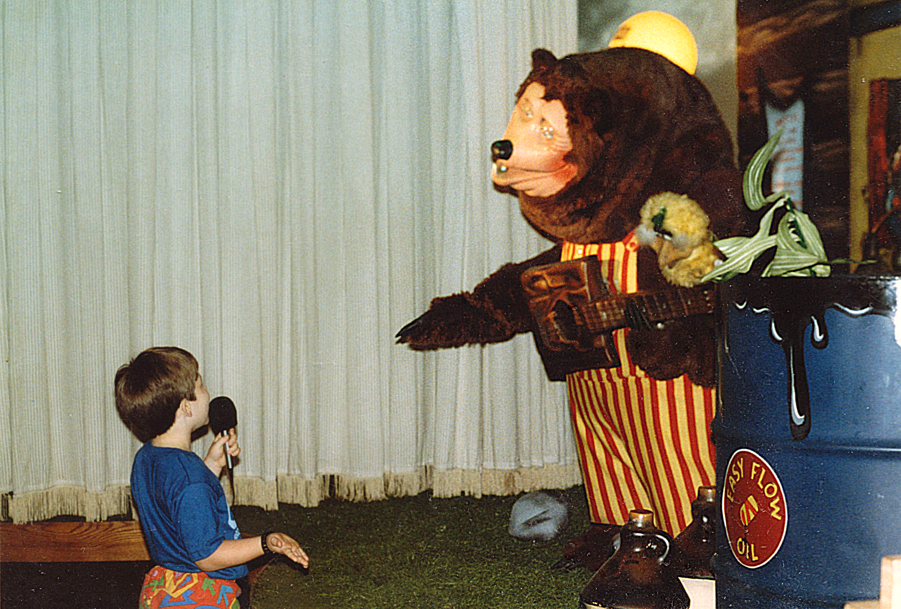 A child uses a microphone to speak to Billy Bob, mascot of ShowBiz Pizza Place, during a birthday party at ShowBiz Pizza in Fayetteville, Arkansas. The child is Ben Schumin, i.e. User:SchuminWeb.